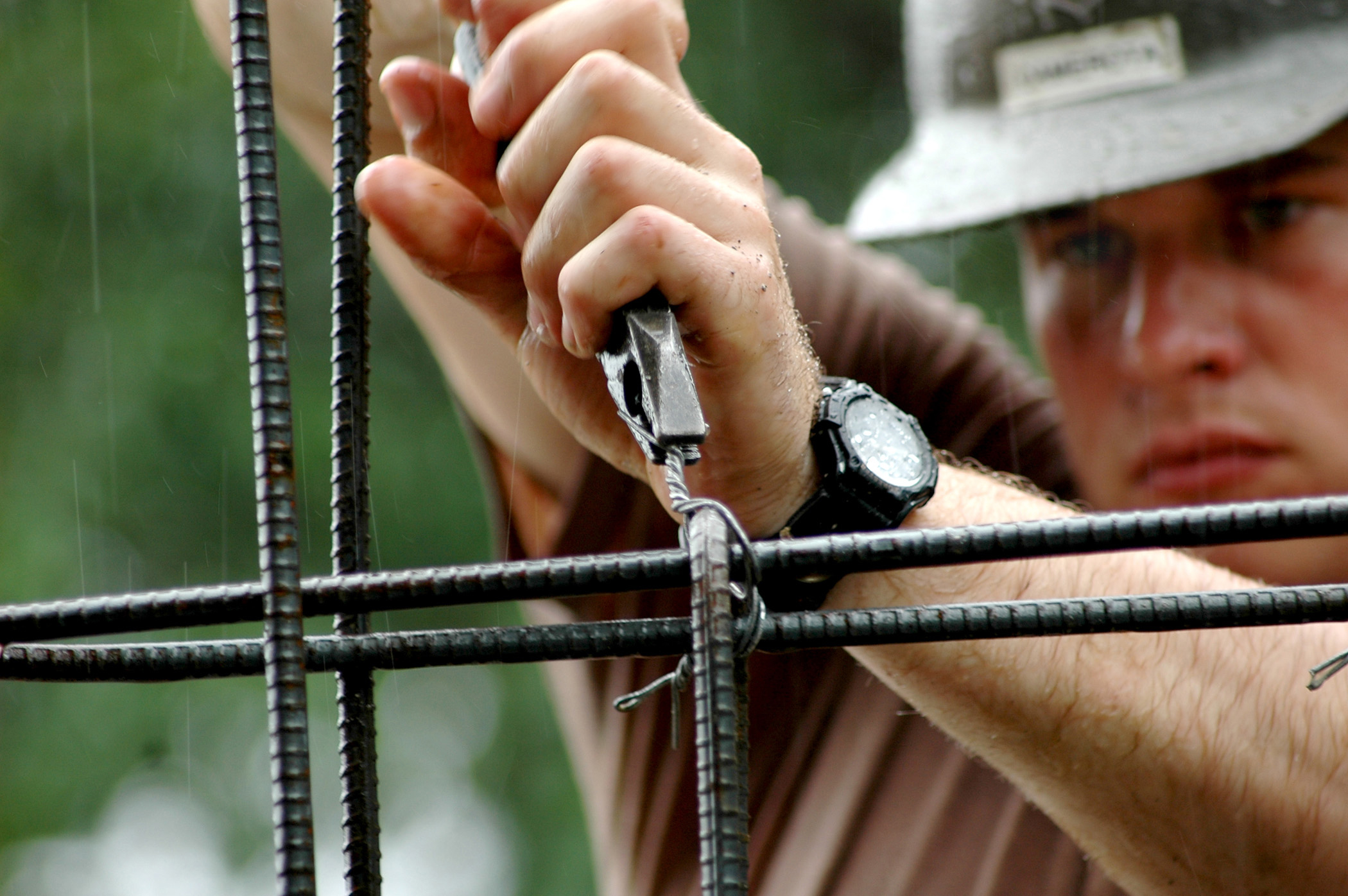 Navy Seabee Petty Officer 2nd Class Armando Camerota uses pliers to tighten tie wire on reinforcing rods at the Mabanengbeng Elementary School project site in San Fernando, Philippines, on July 31, 2006. The Seabees from Naval Mobile Construction Battalion 1 are in the Philippines to construct two classrooms for the school as part of exercise Cooperation Afloat Readiness and Training. The exercise is an annual series of bilateral maritime training exercises between the United States and six Southeast Asian nations designed to build relationships and enhance the operational readiness of the participating forces.